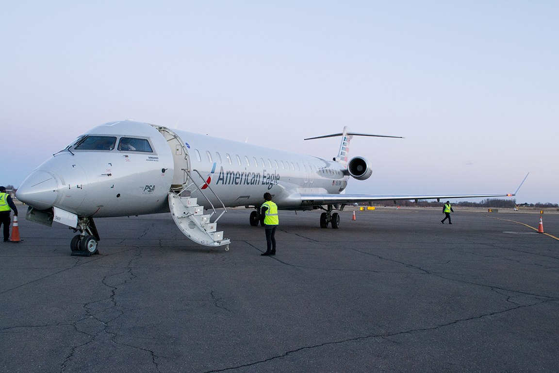 The first commercial service CRJ-900, operated by PSA Airlines, is parked at Tweed, on March 25, 2018.